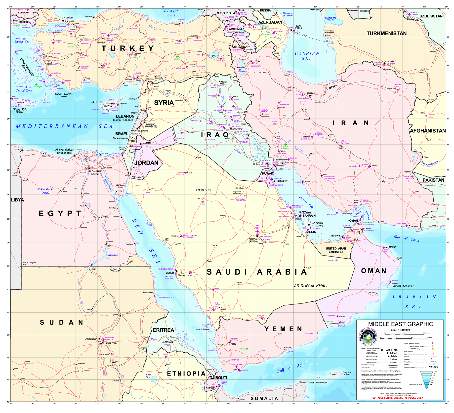 Subject: Middle East map Source: NGA [1]